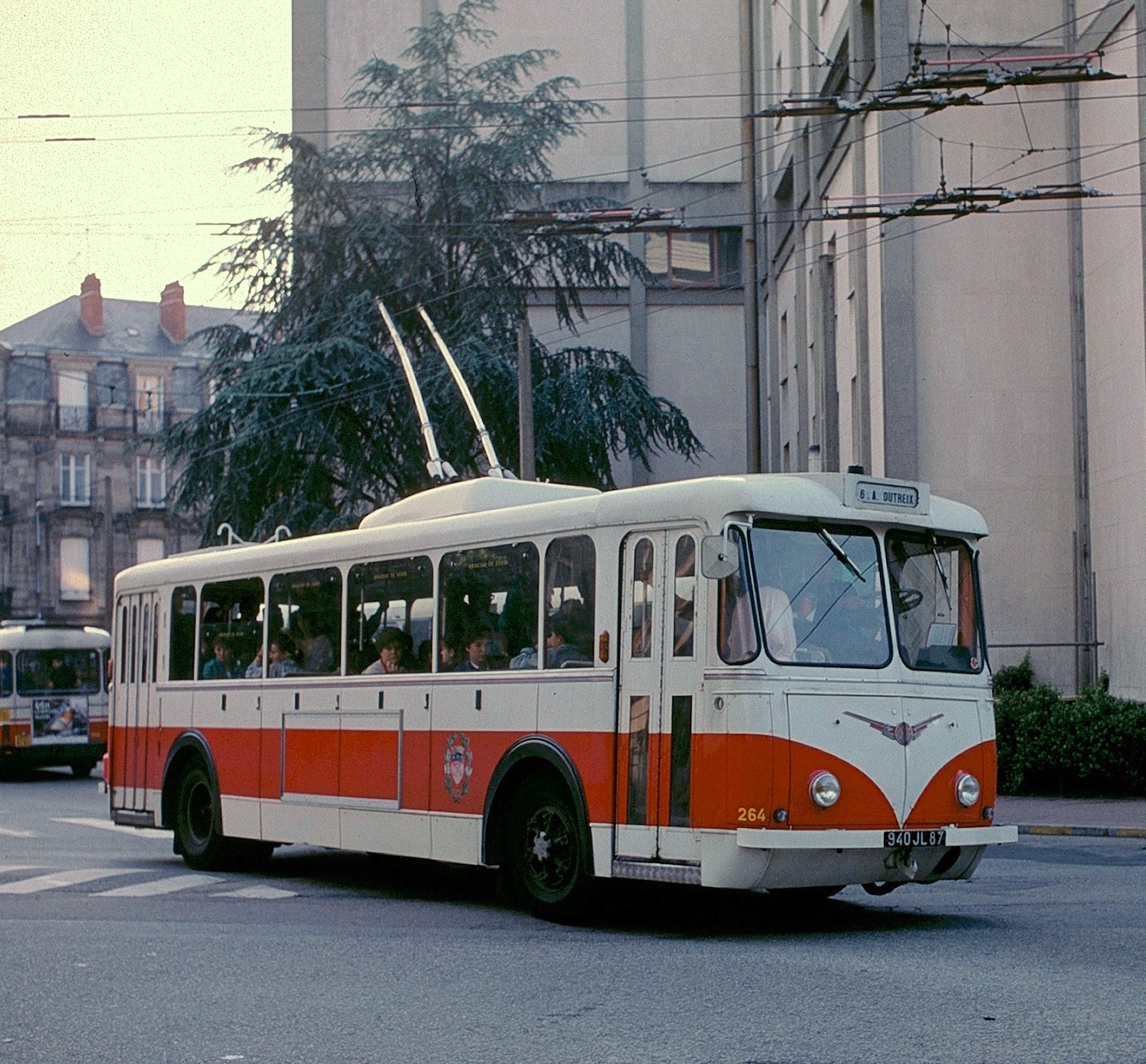 Limoges Vétra trolleybus 264 at Place Stalingrad in May 1988, westbound on route 6. No. 264 was a 1949-built Vétra VBRh trolleybus and originally served the Paris trolleybus system, as No. 8055. It was acquired secondhand by the Limoges system in 1966 and entered service there in 1971. It was withdrawn from service later in 1988.